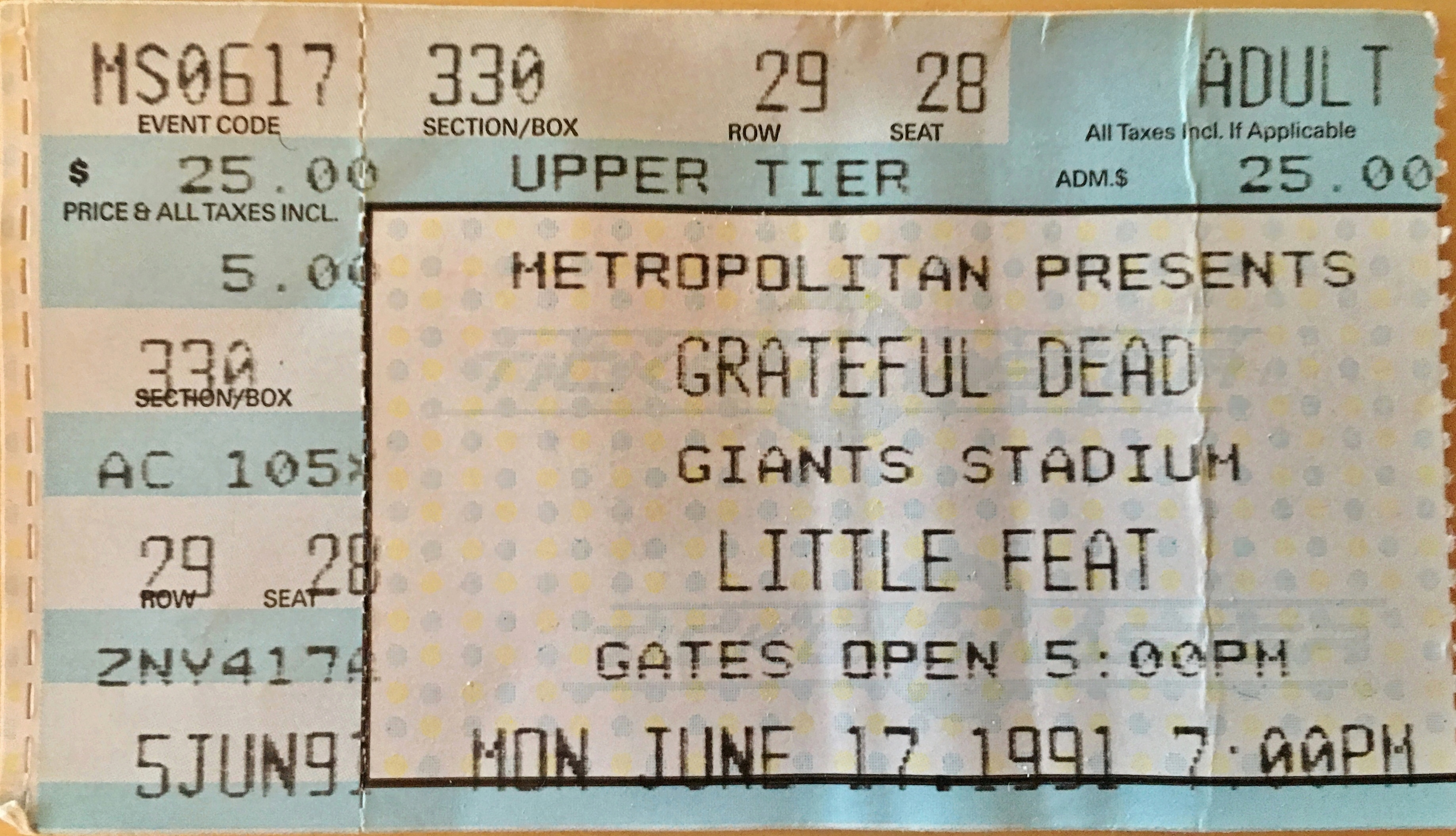 Photograph of a concert ticket for Little Feat and The Grateful Dead at Giants Stadium on Monday, June 17, 1991